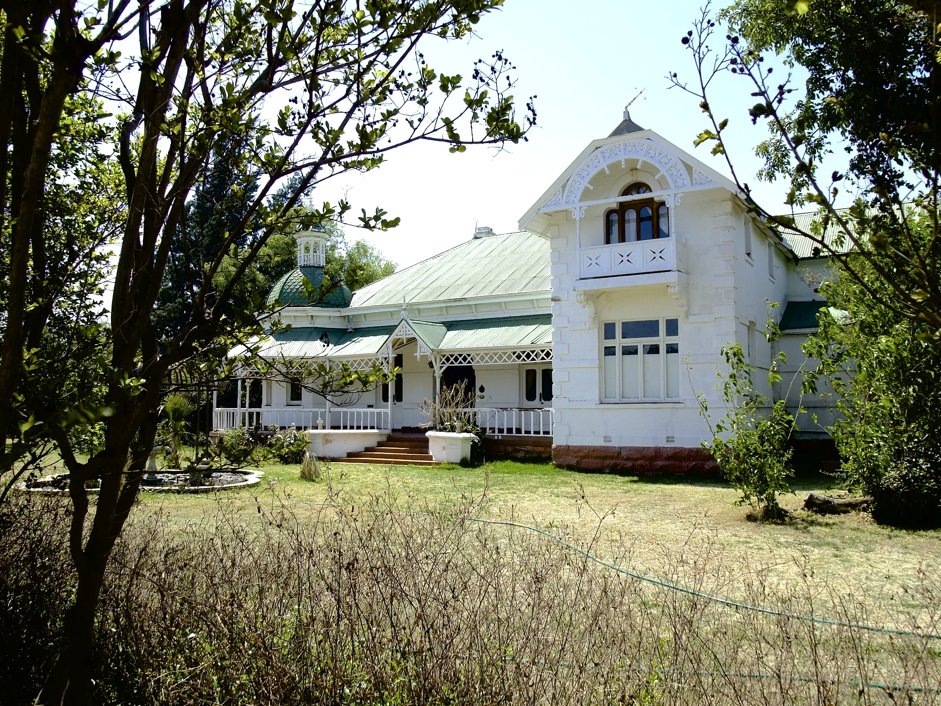 Fountain Villa, Hendrik Potgieter Street, Klerksdorp This media shows a South African Protected Site with SAHRA file reference 9/2/231/0002.